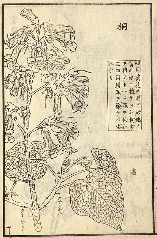 Paulownia by Kawahara